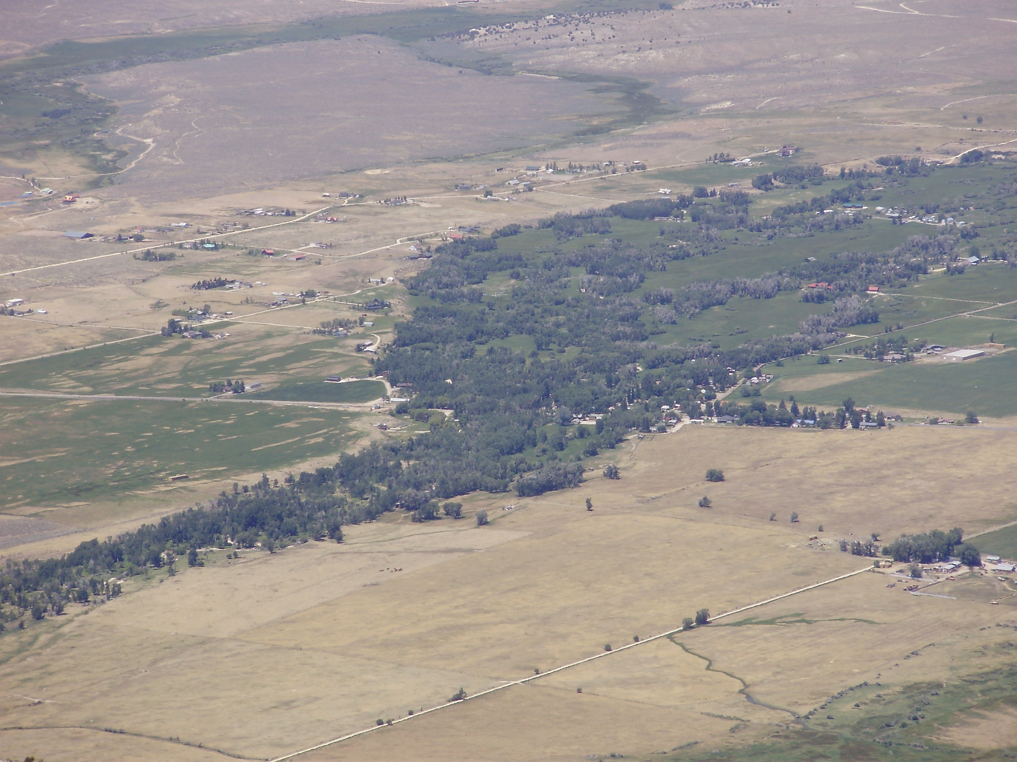 View of Lamoille, Nevada from the northeast wall of Lamoille Canyon.